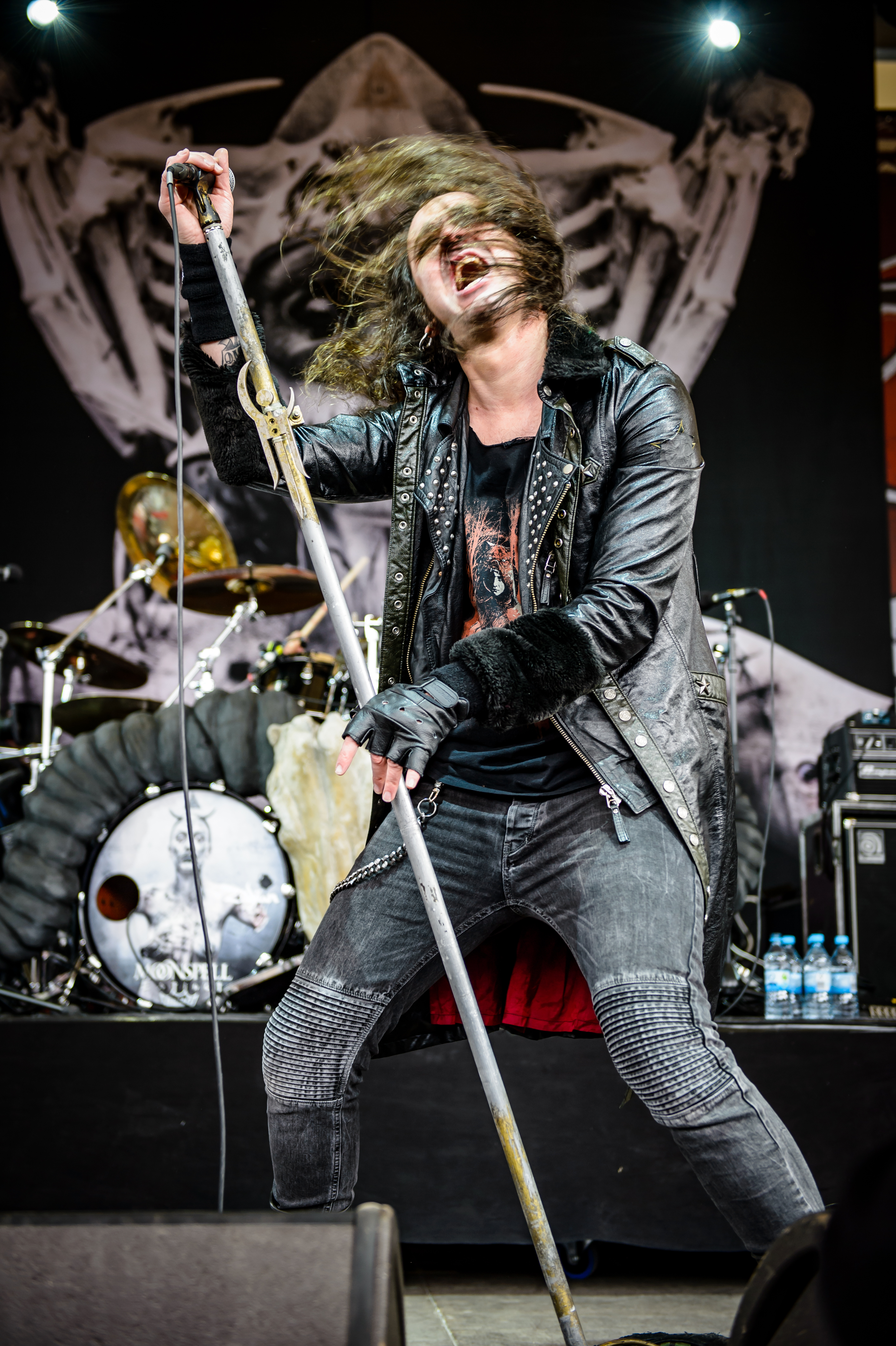 Moonspell; RockHard Festival 2016